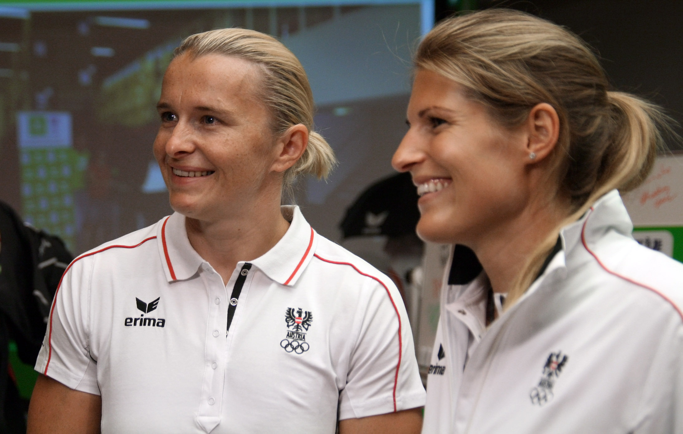 Canoers Viktoria Schwarz and Yvonne Schuring at the hand-out of the Austrian teams official attire for the 2012 Summer Olympics in London (Marriott, Vienna).